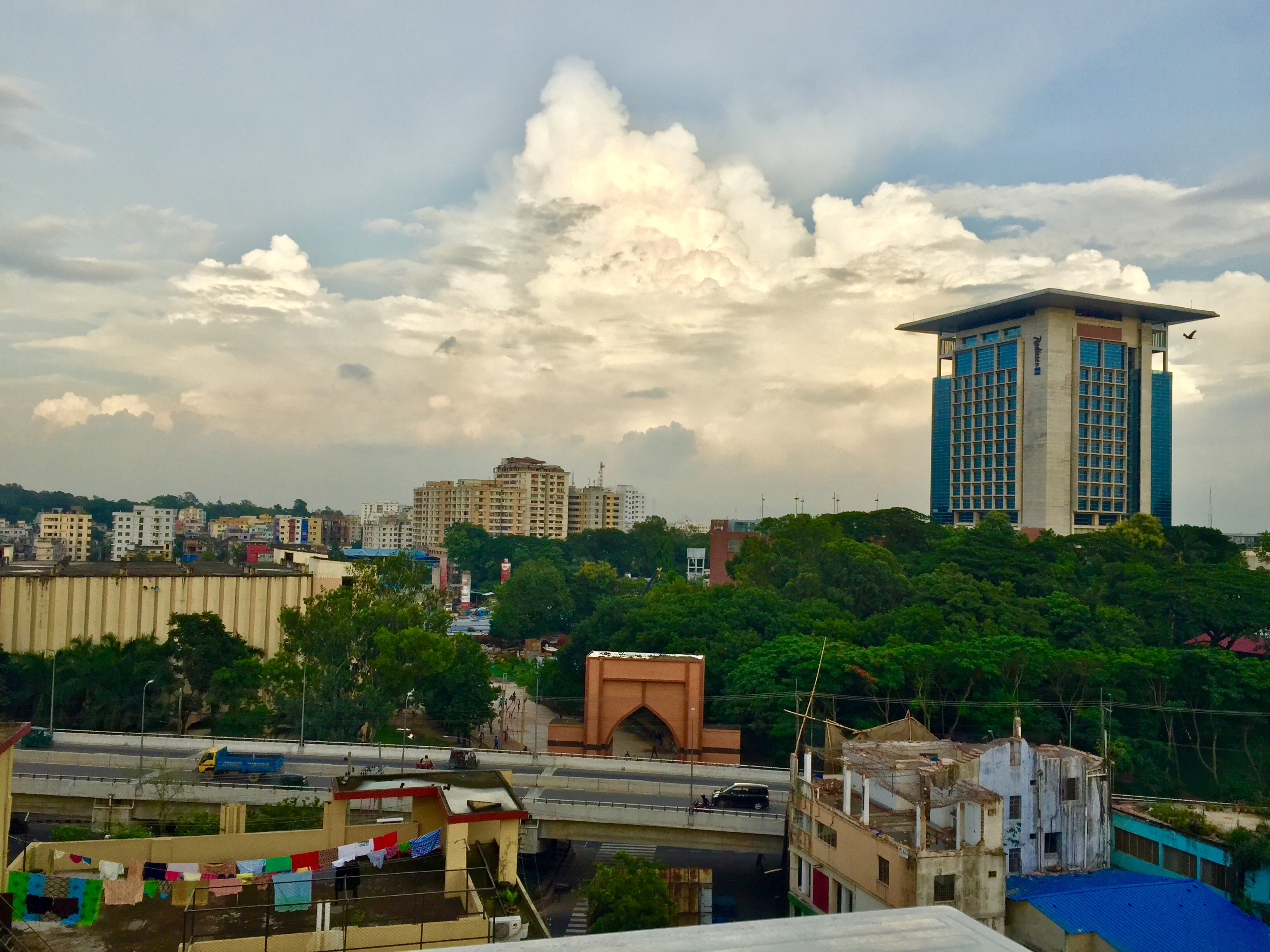 A view of the city around the 5 star hotel Radisson blu Chittagong bay view.